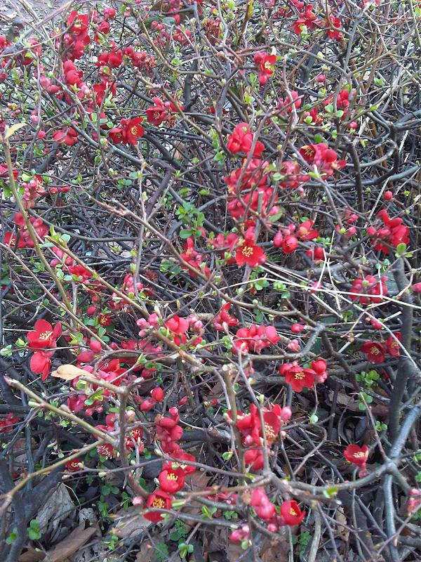 Chaenomeles japonica with flowers in Kew Gardens, England.